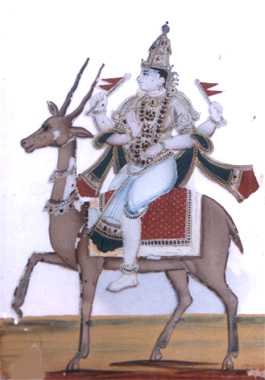 Tanjore painting of Vayu, Vedic god of wind, riding his deer. Tempera on mica, original painting 23.5 X 18.5 cm. The painting now resides in Chennai Museum. Original caption: The picture depicts Vayu sitting on a Deer. The deity has two pair of arms . The two arms (the left & Right) are carrying flag. One right hand is in blessing posture. The head, chest and shoulders are adorned with ornaments.